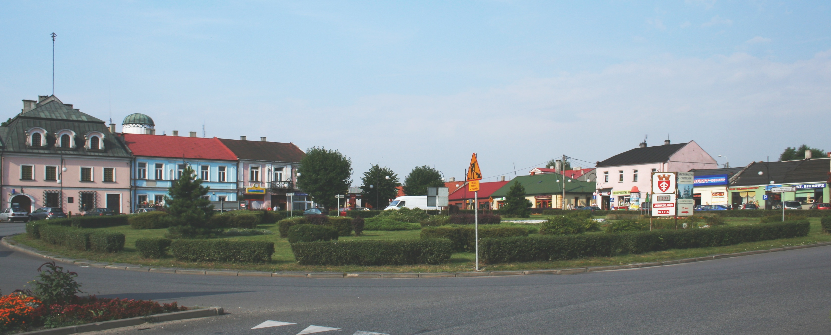 Jędrzejów, Poland